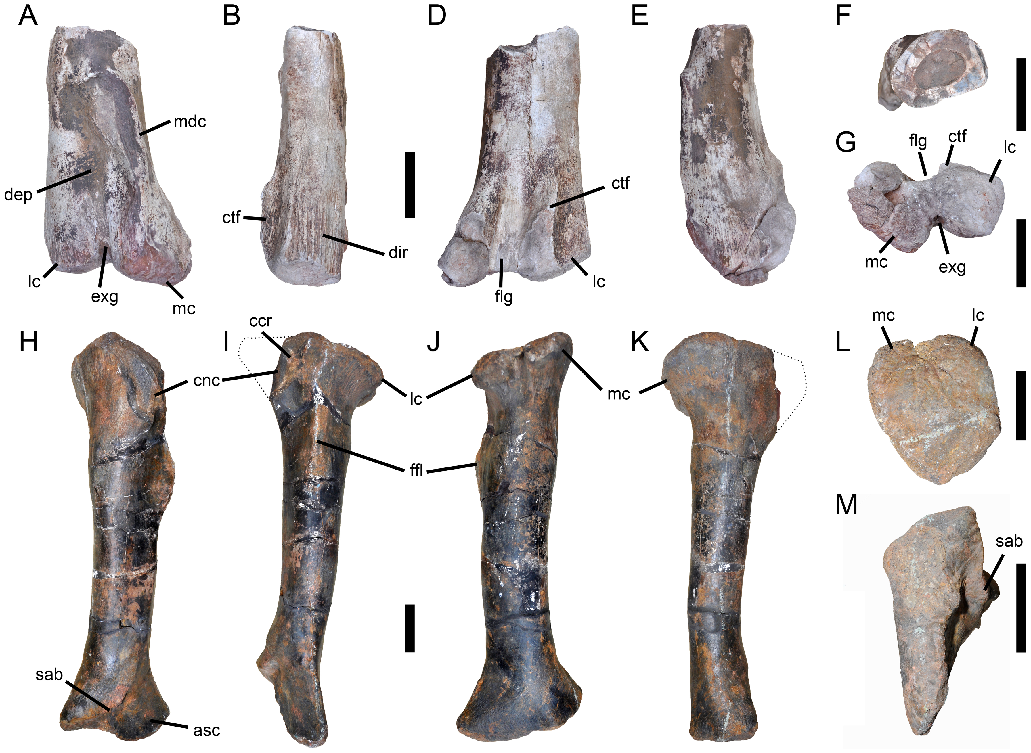 Femur and tibia of Megalosauridae from the Late Jurassic of Portugal. Distal portion of a left femur (ML 632) of a megalosaurid tentatively referred to Torvosaurus gurneyi in A, anterior; B, lateral; C, posterior; D, medial; E, proximal; and F, distal views. Incomplete left tibia (ML 430) of Torvosaurus sp. (and tentatively referred to Torvosaurus gurneyi), with reconstruction of missing part of cnemial crest, in A, anterior; B, lateral; C, posterior; D, medial; E, proximal; and F, distal views. Abbreviations: asc, contact with astragalus; ccr, cnemial crest ridge; cnc, basal part of cnemial crest; ctf, crista tibiofibularis; dep, anterodistal depression; dir, distal ridges; exg, extensor groove; ffl, fibular flange; flg, flexor groove; lc, lateral condyle; mc, medial condyle; mdc, medio-distal crest; sab, supracetabular buttress. Scale bars = 10 cm.